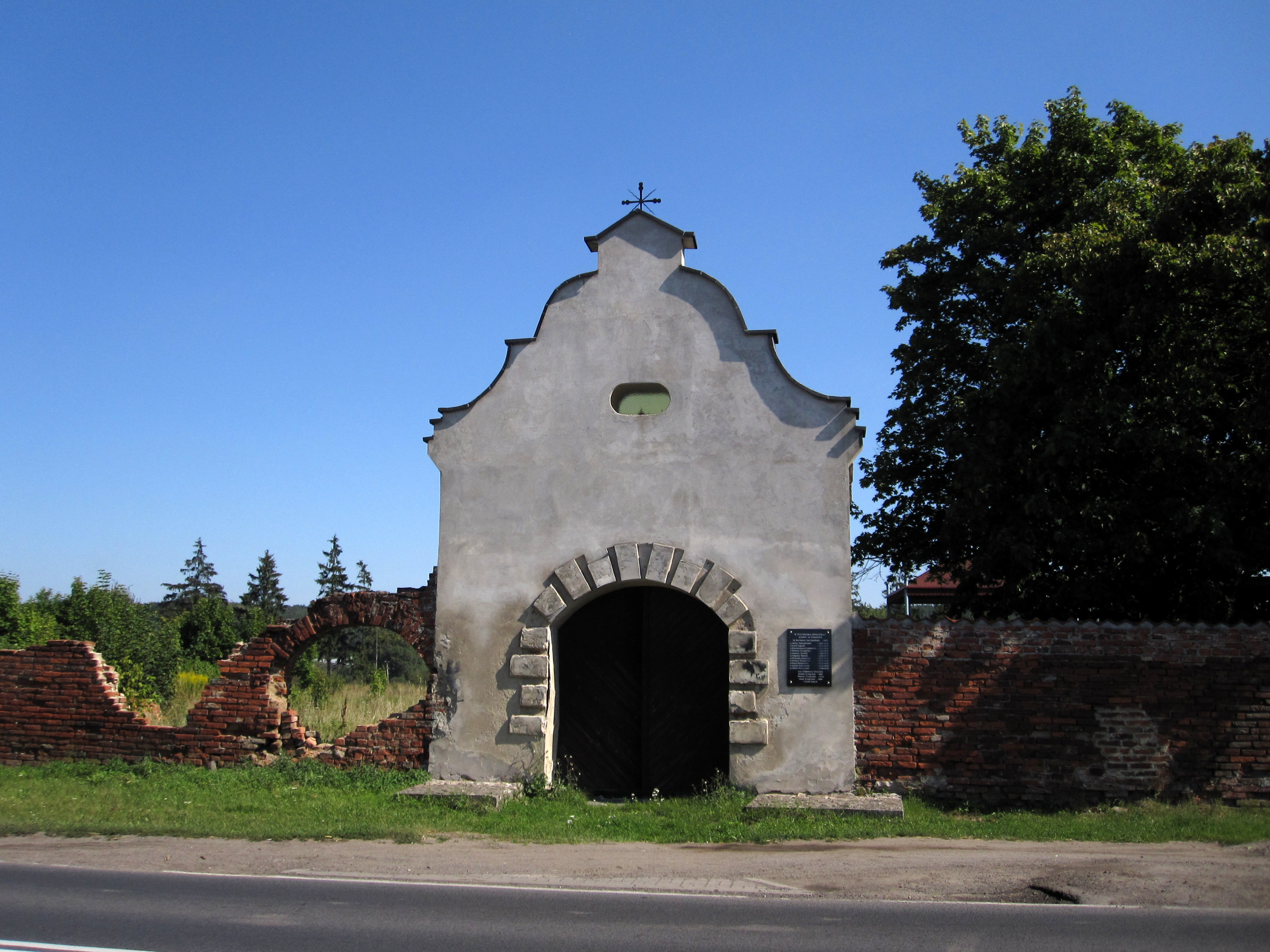 Ruins of a monastery in Nowe Miasto Lubawskie (Łąki Miejskie)